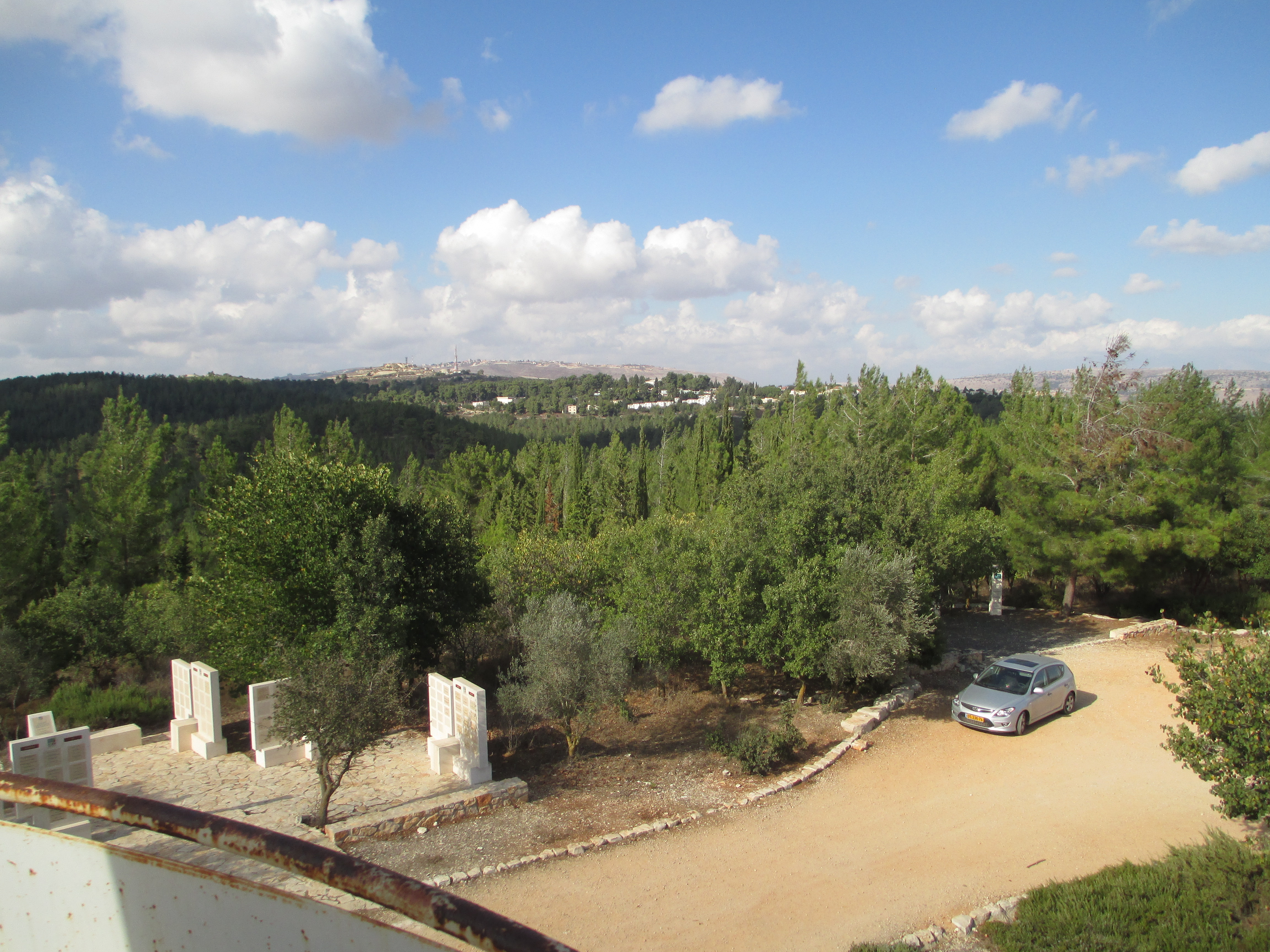 Bar'am observatory tower